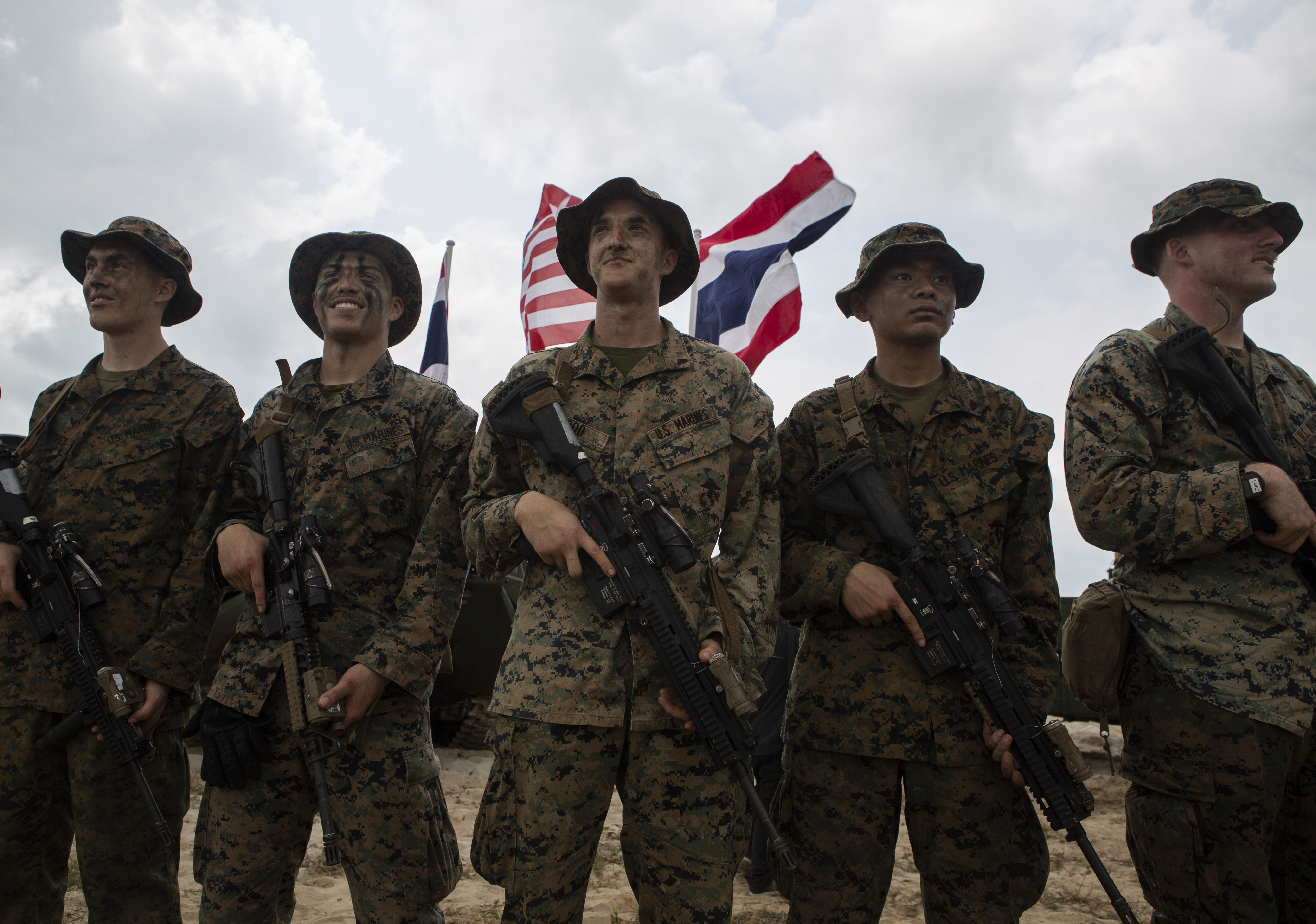 U.S. Marines with Alpha Company, Battalion Landing Team, 1st Battalion, 5th Marine Regiment, stand for a group photo after conducting an amphibious beach landing as part of exercise Cobra Gold 2020 at Hat Yao Beach, Sattahip, Kingdom of Thailand, Feb. 28, 2020. Exercise Cobra Gold 20, in its 39th iteration, is designed to advance regional security and ensure effective responses to regional crises by bringing together multinational forces to address shared goals and security commitments in the Indo-Pacific region. (U.S. Marine Corps photo by Lance Cpl. Hannah Hall)